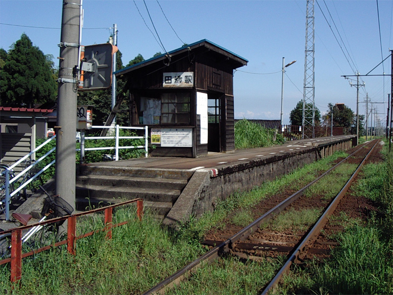 Tazoe Station on the Toyama Chiho Railway Tateyama Line in Tateyama, Toyama Prefecture, Japan